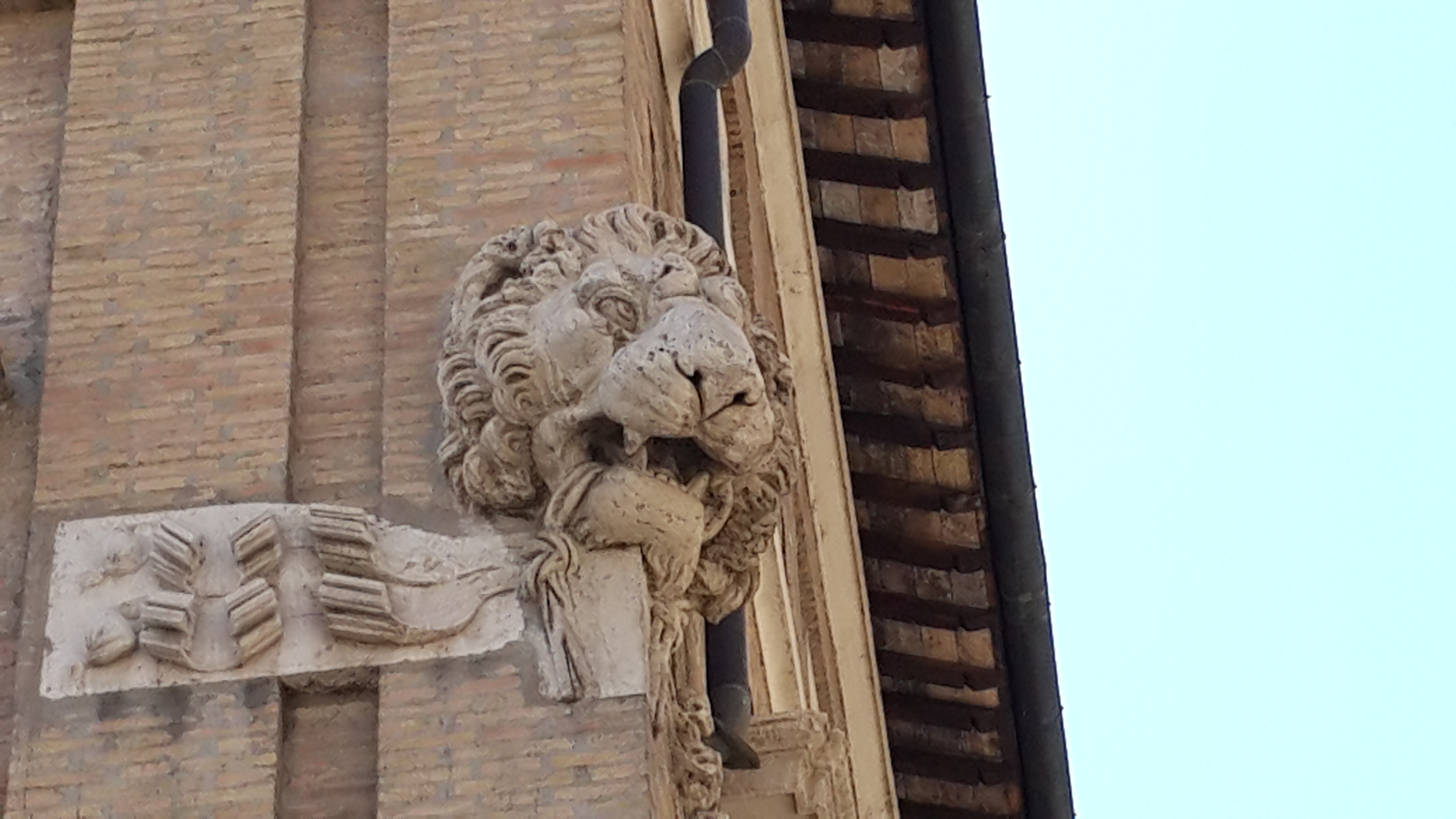 Lion`s Head of Palazzo Cesi in Rome